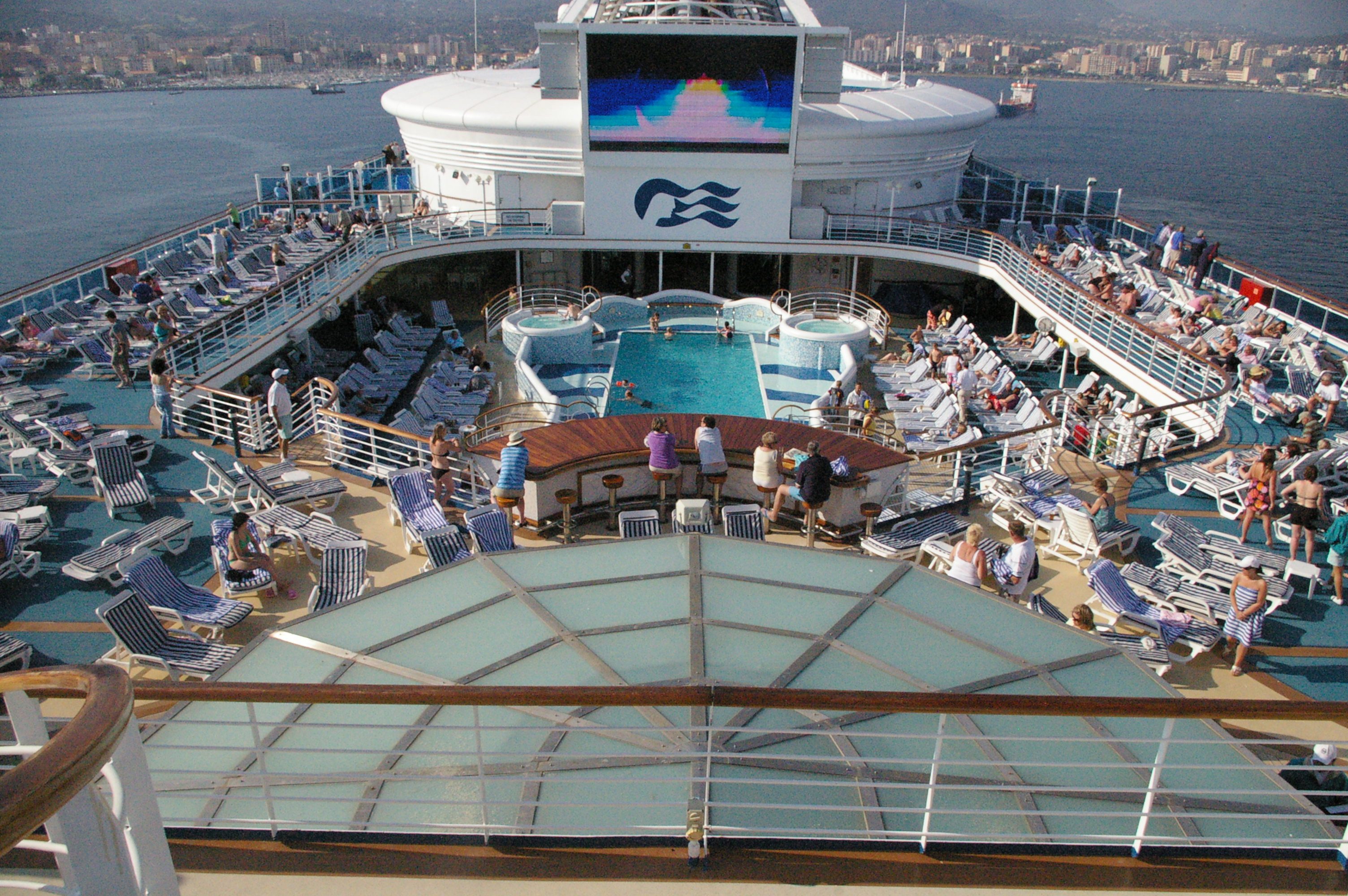 Open air movie screen on Grand Princess